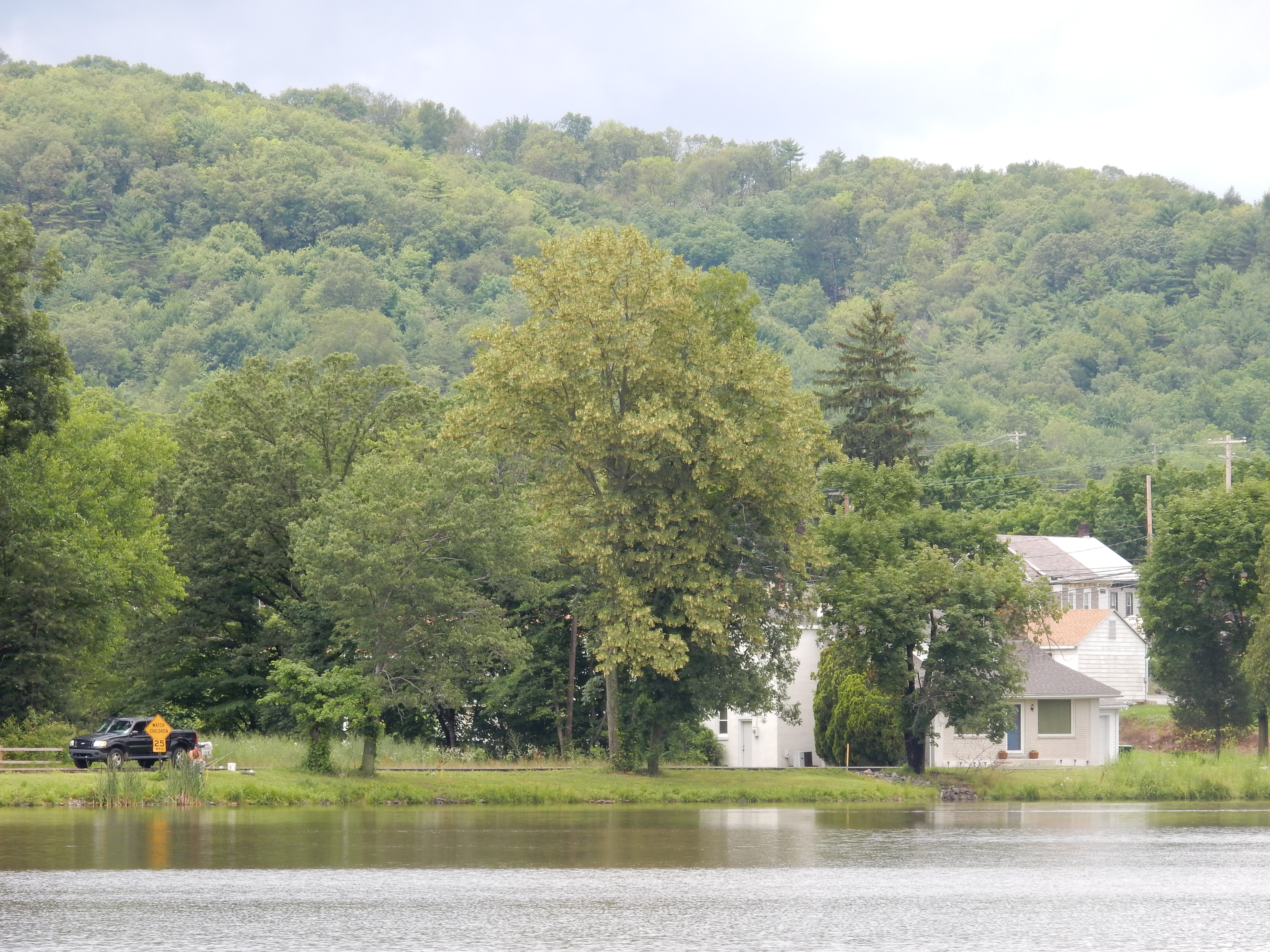 Deer Lake, Schuylkill County, Pennsylvania. West coast.